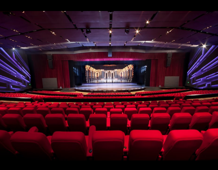 Newport Ampitheater